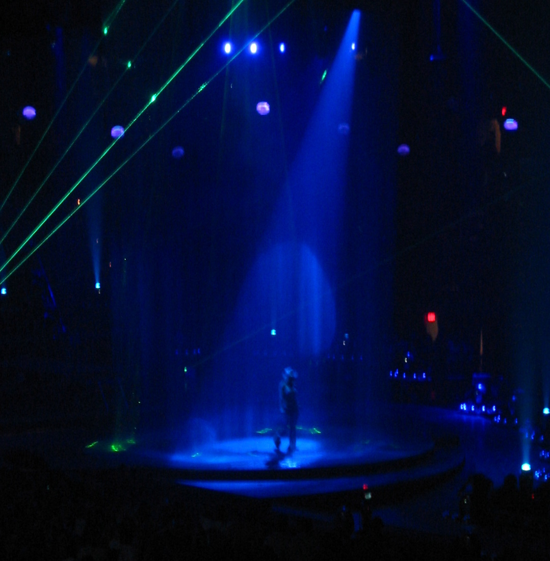 Spears Performing live